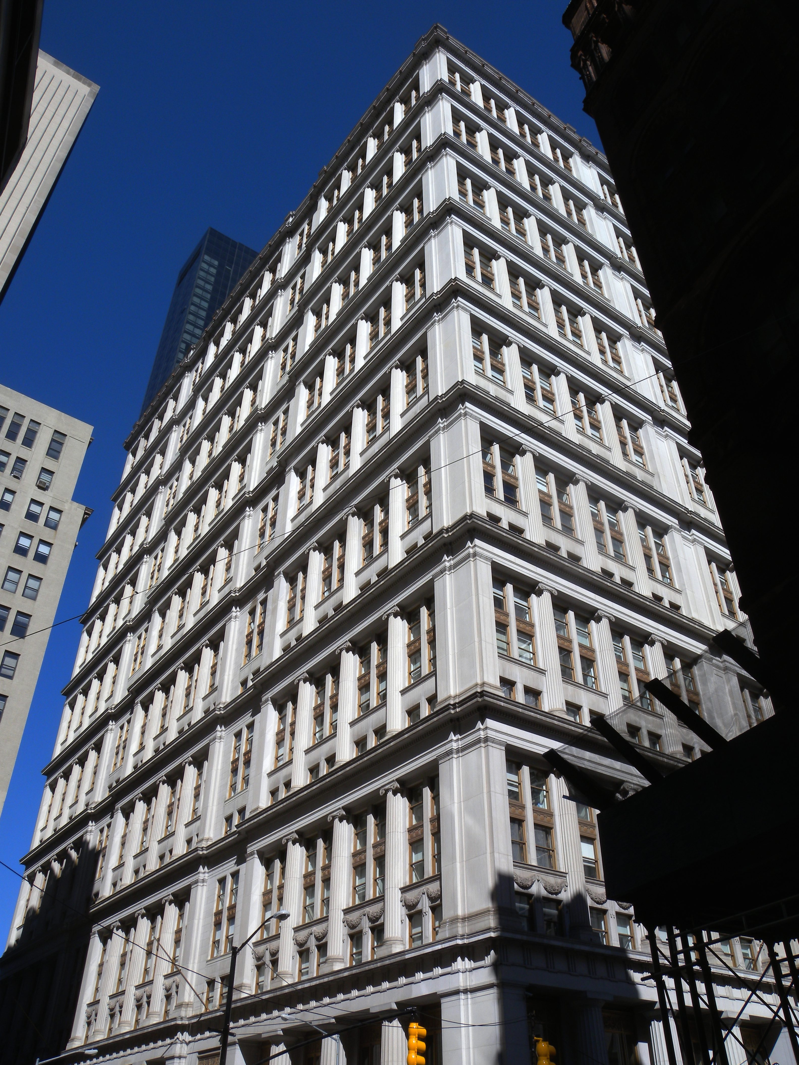 Looking northwest across Dey and Broadway at 195 Broadway on a sunny late morning.